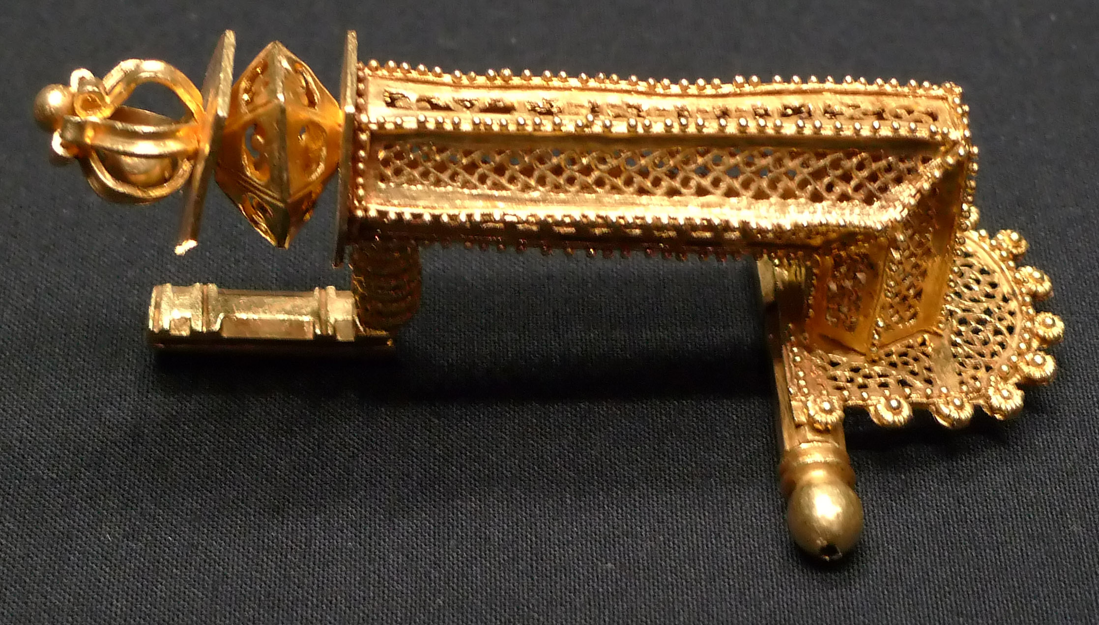 Roman gold fibula inscribed "VTERE FELIX" (Use this with luck), late 3rd century AD. From the Osztropataka Vandal burial site, around or before 300 AD.